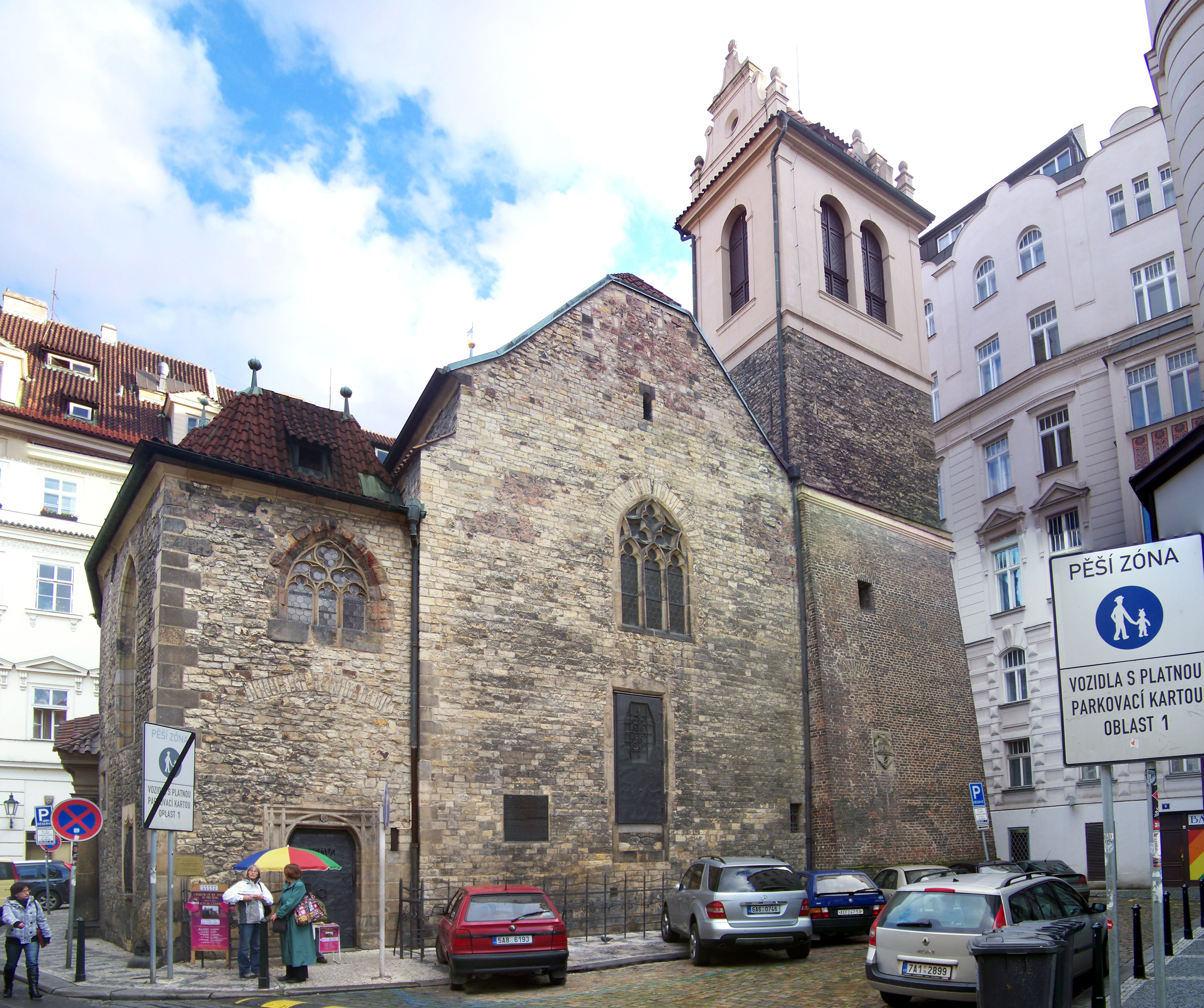 Prague, Old Town, the Czech Republic. Martinská Street, the Church of St. Martin in the Wall. - Google Maps - Google Earth